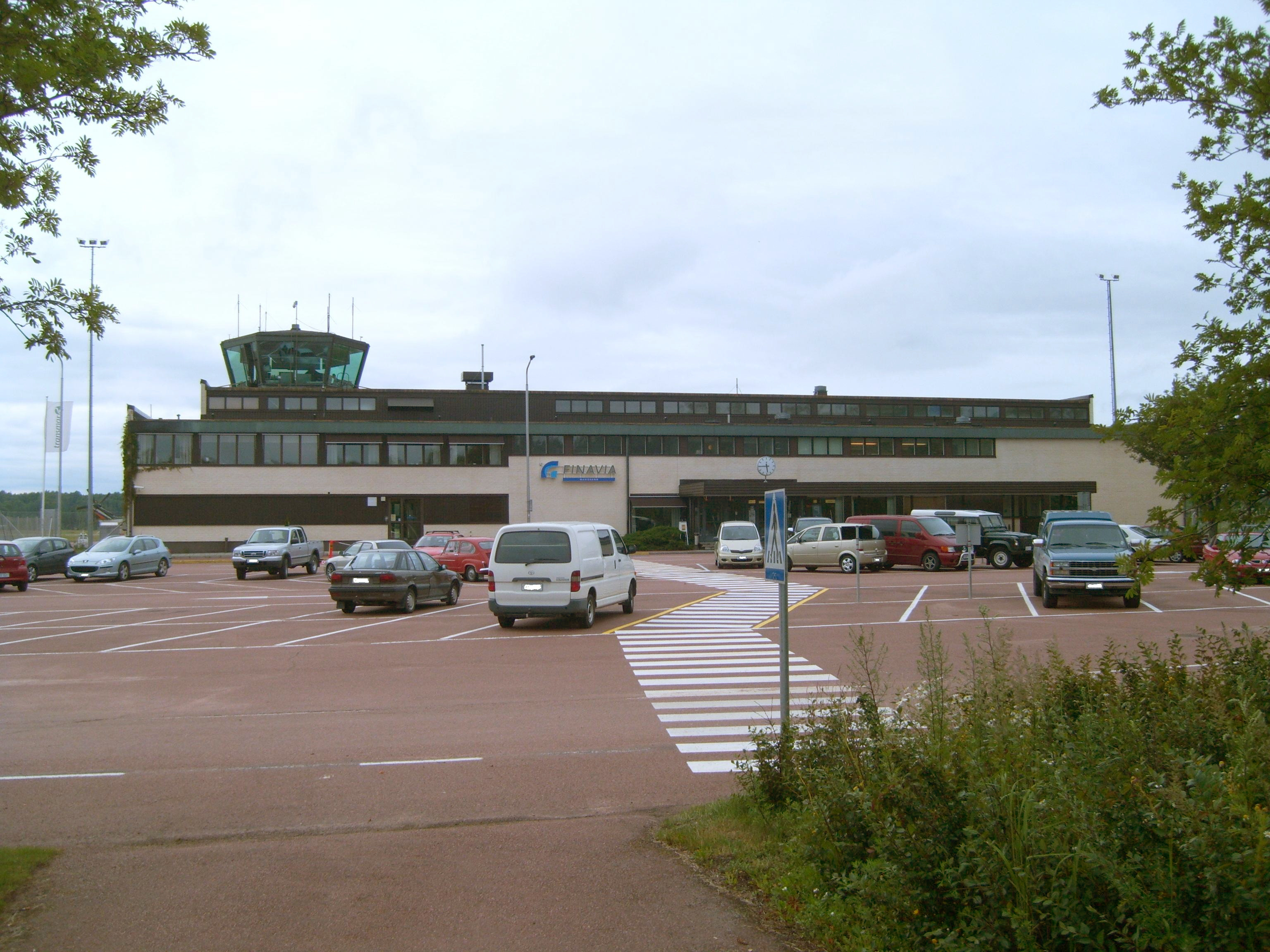 Terminal of Mariehamn Airport in Jomala, Åland, Finland. The signs on the cars are removed.